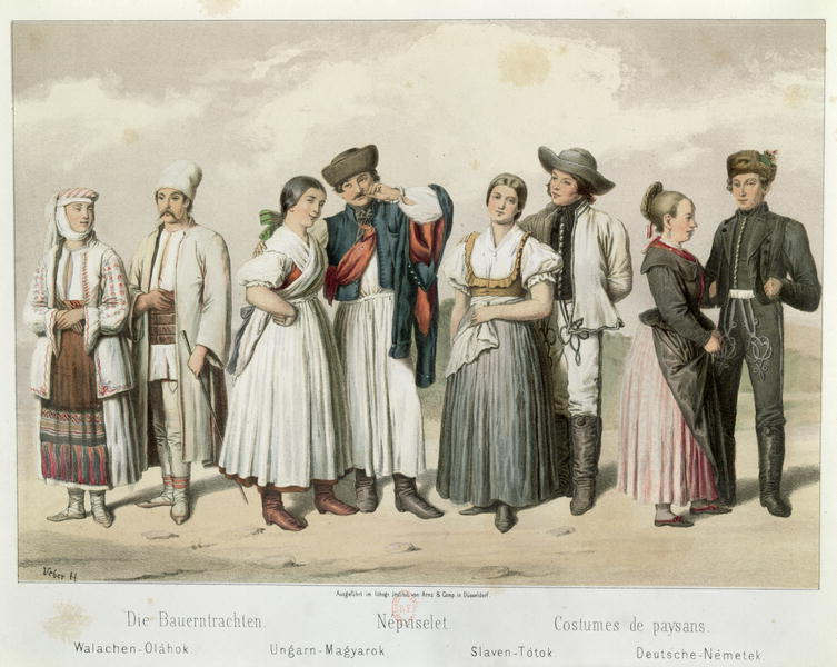 Costumes of Peasants of Romanian, Hungarian, Slavic and German ethnicity from Hungary.